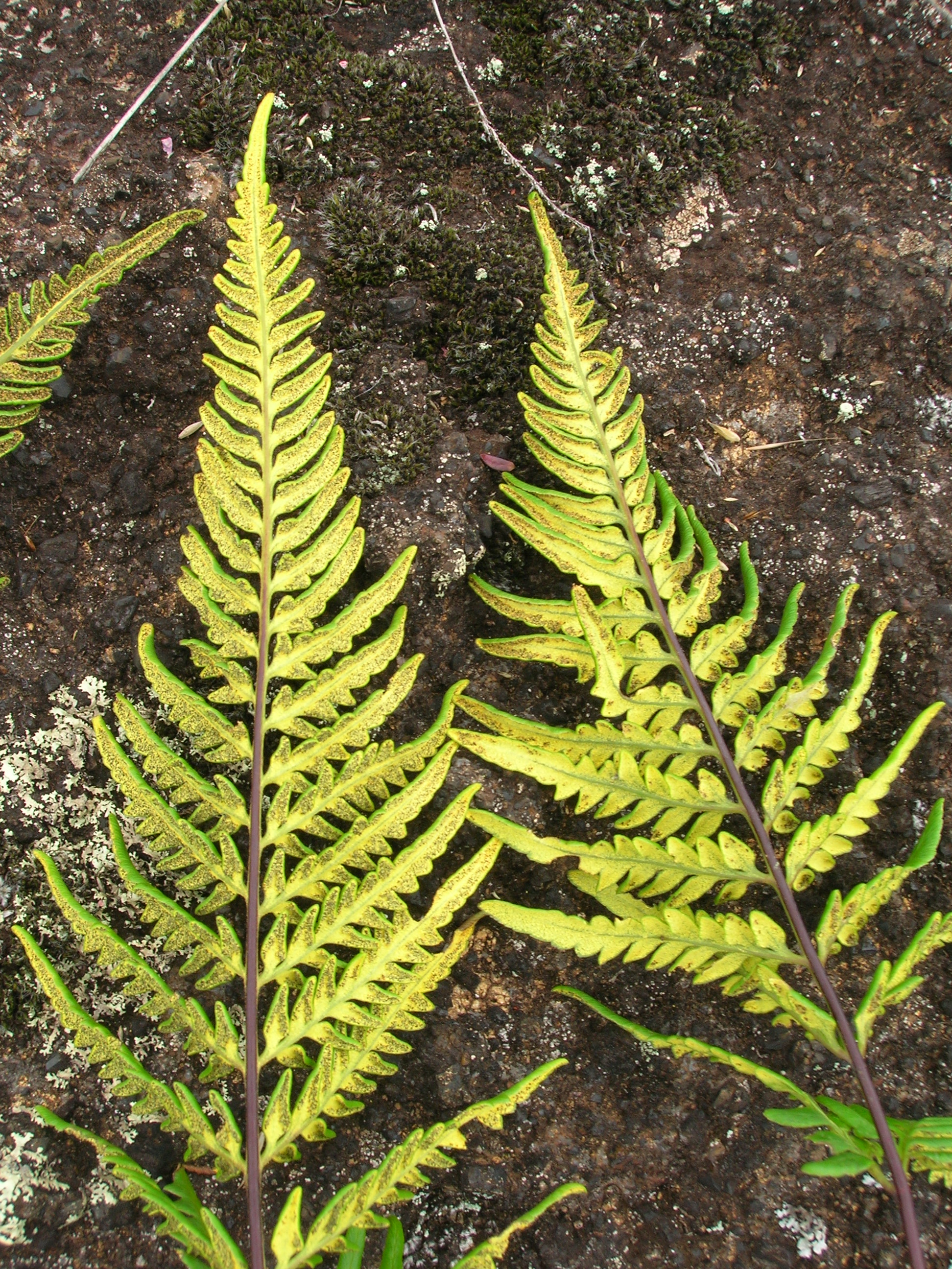 Pityrogramma austroamericana (frond). Location: Maui, Pohakuokala Gulch